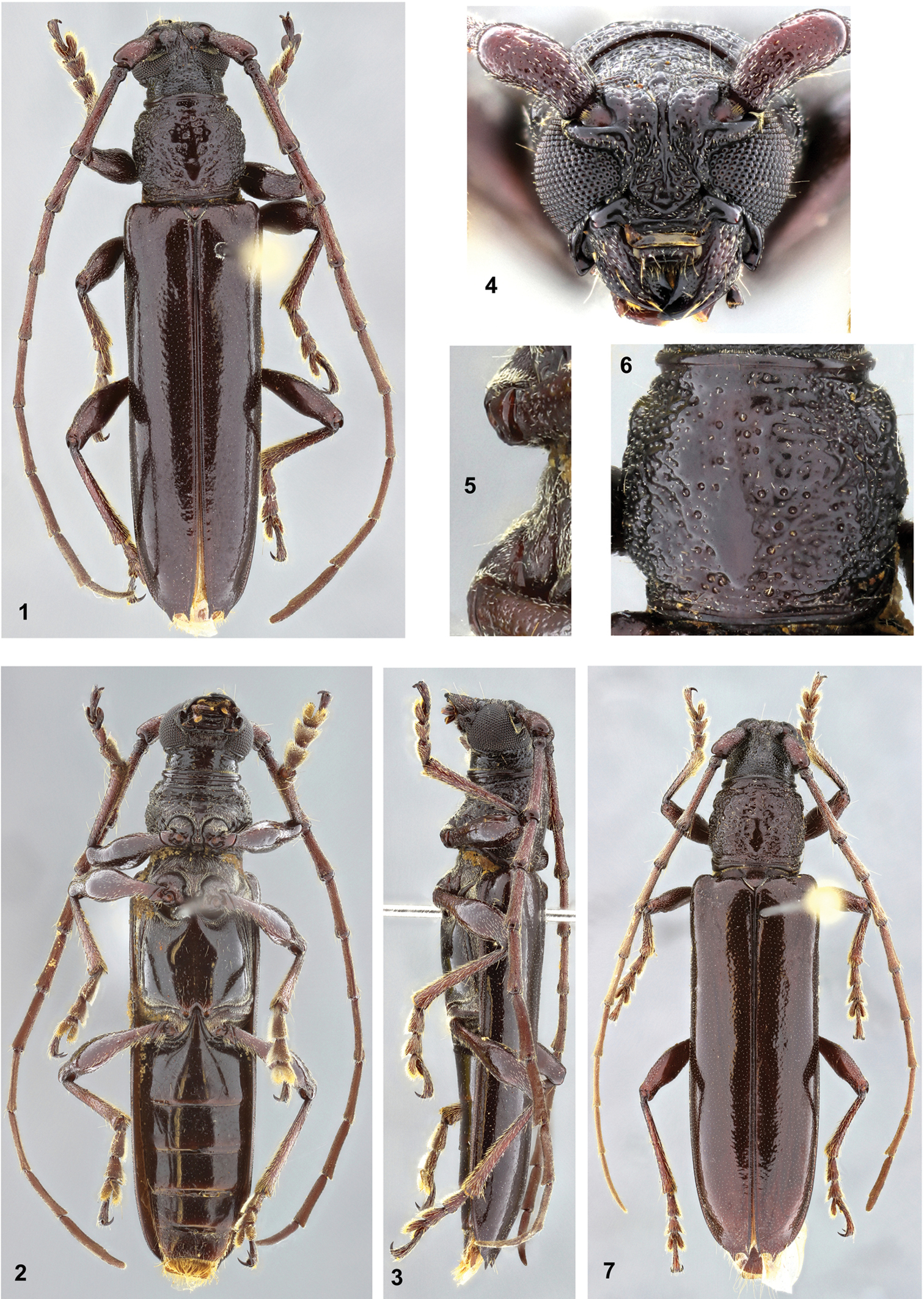 Coleoxestia beckeri (Cerambycidae). 1–6. Holotype male: 1 dorsal view. 2 ventral view. 3 lateral view. 4 head, frontal view. 5 prosternal and mesosternal process, lateral view. 6 pronotum. 7 female paratype, dorsal view.